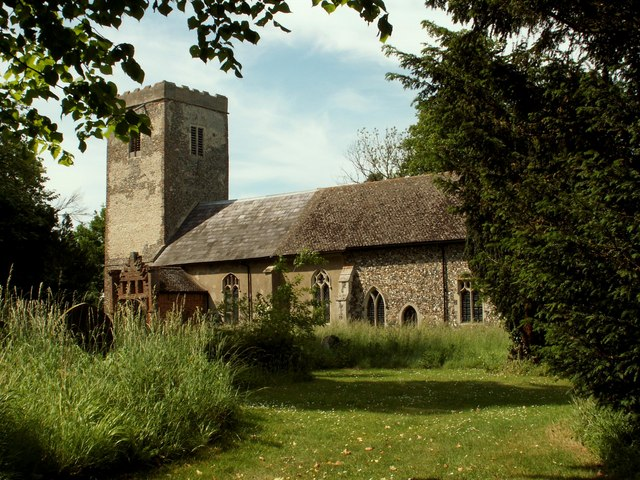 St Andrew's parish church, Winston, Suffolk, seen from the southeast